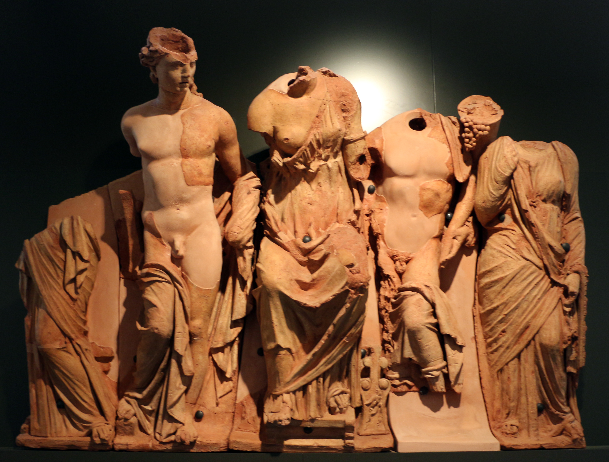 Museo archeologico nazionale (Florence)